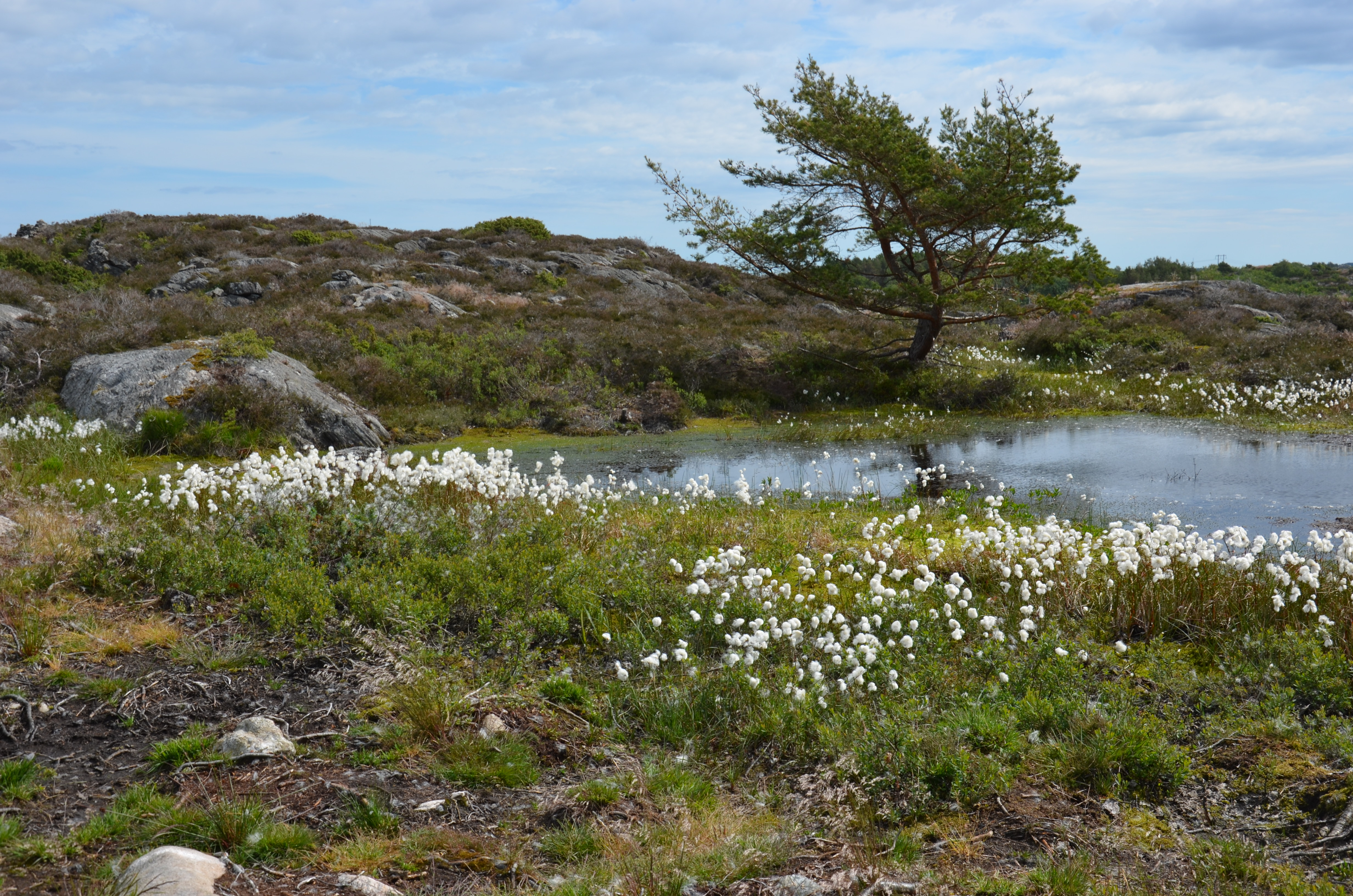 Område med ängsull i Pilane, Tjörn, Sweden